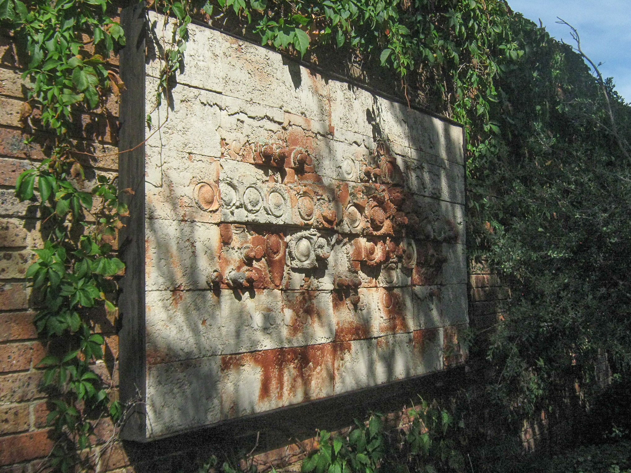 Ian Sprague fireclay wall installation for Hannan House Beaumaris 1977; photo taken over the front fence of the Hannan House